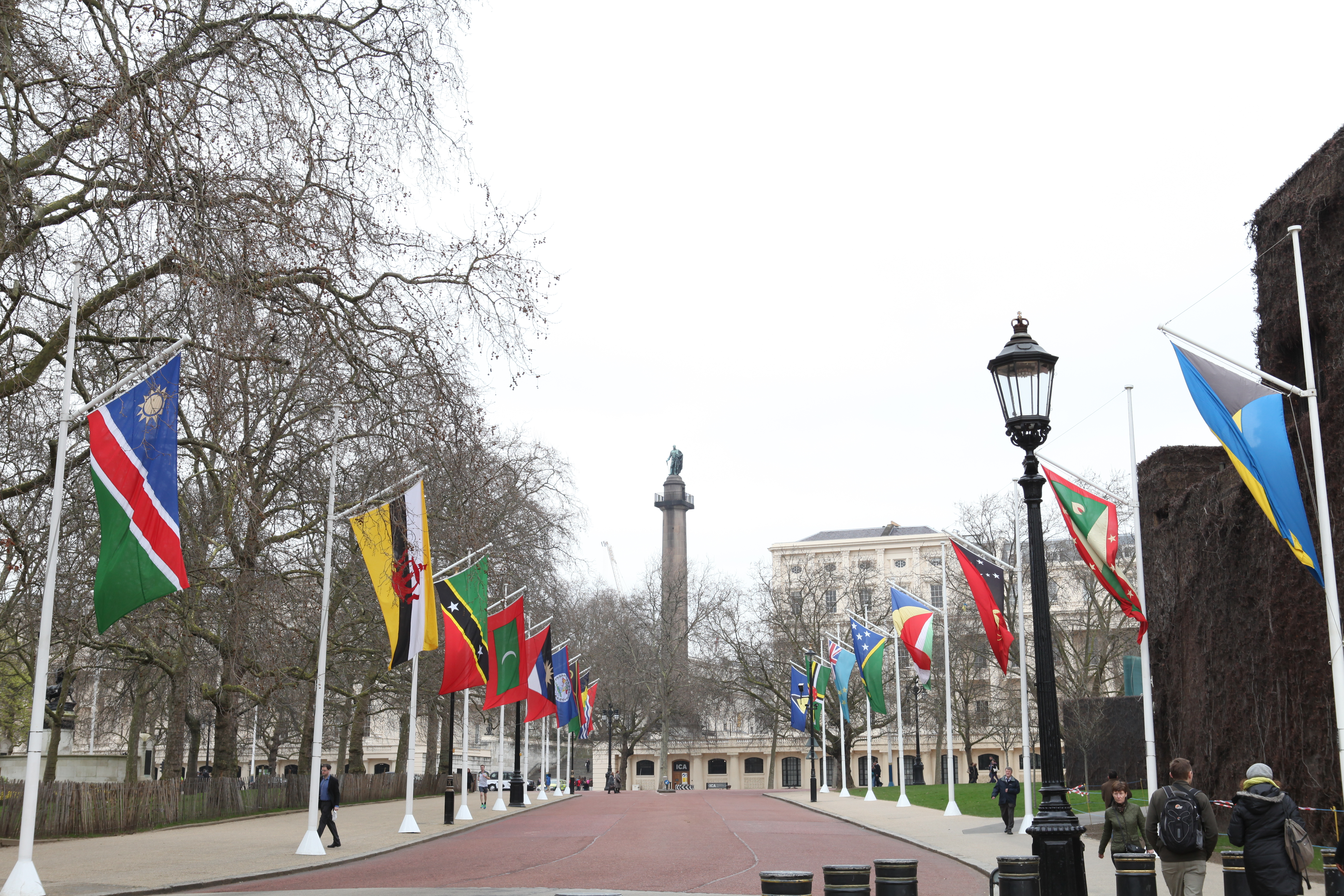 Flags of the Commonwealth flying in Horse Guards, London, 10 March 2014.